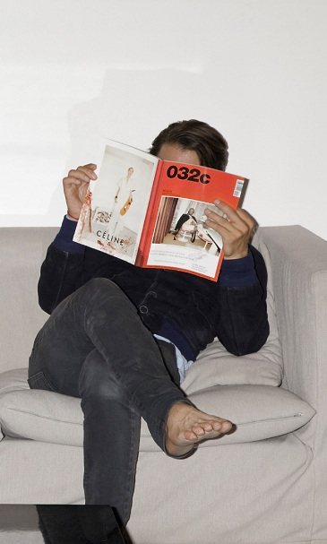 032c chris cumingham